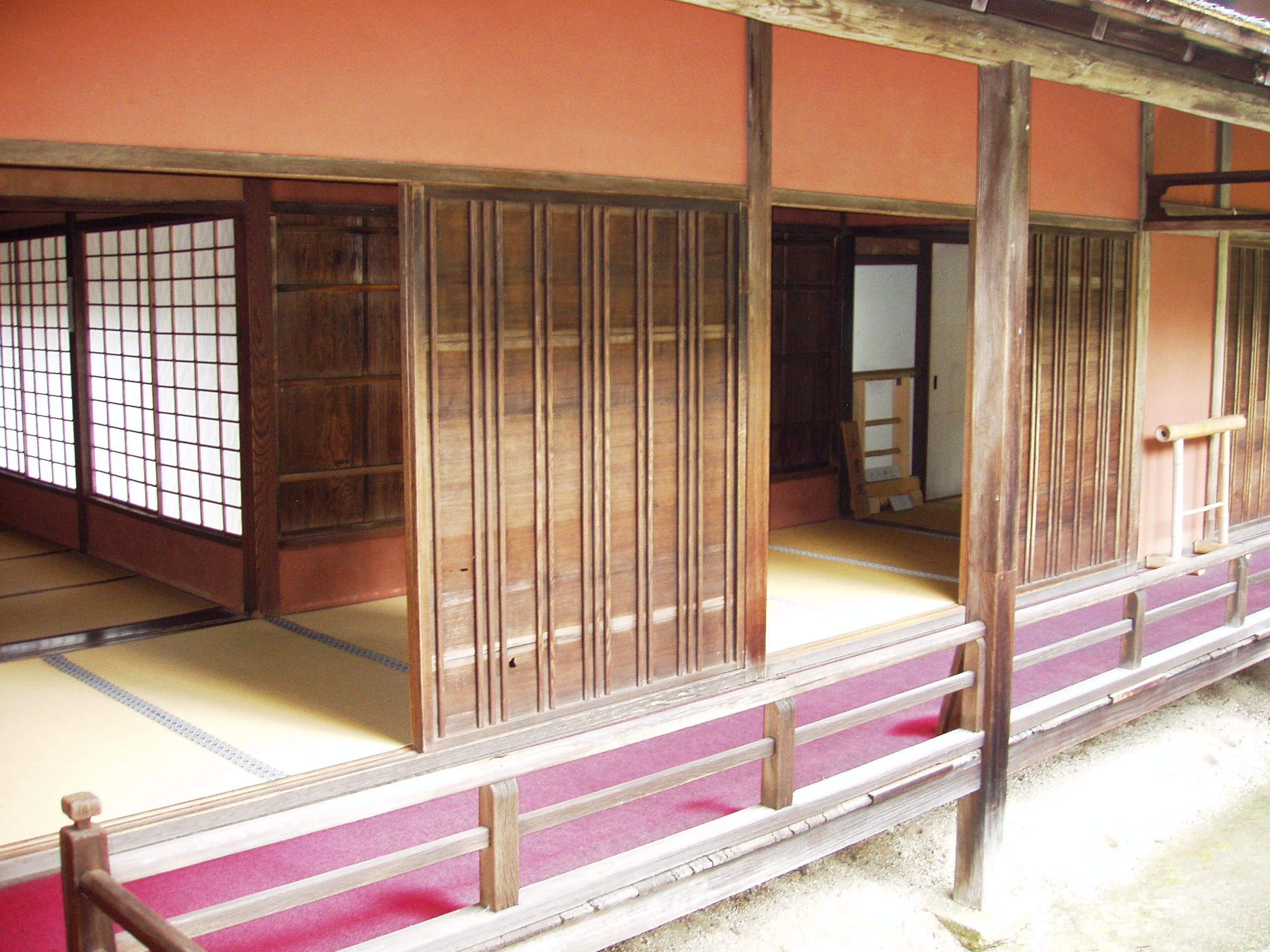 Manshuin Temple, Kyoto, Japan - small shoin, external view.